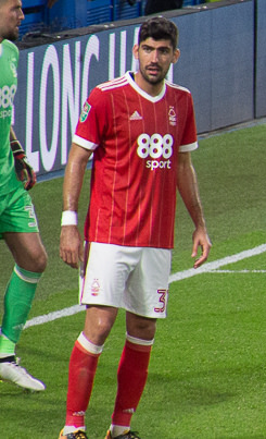 Andreas Bouchalakis playing for Nottingham Forest in 2017